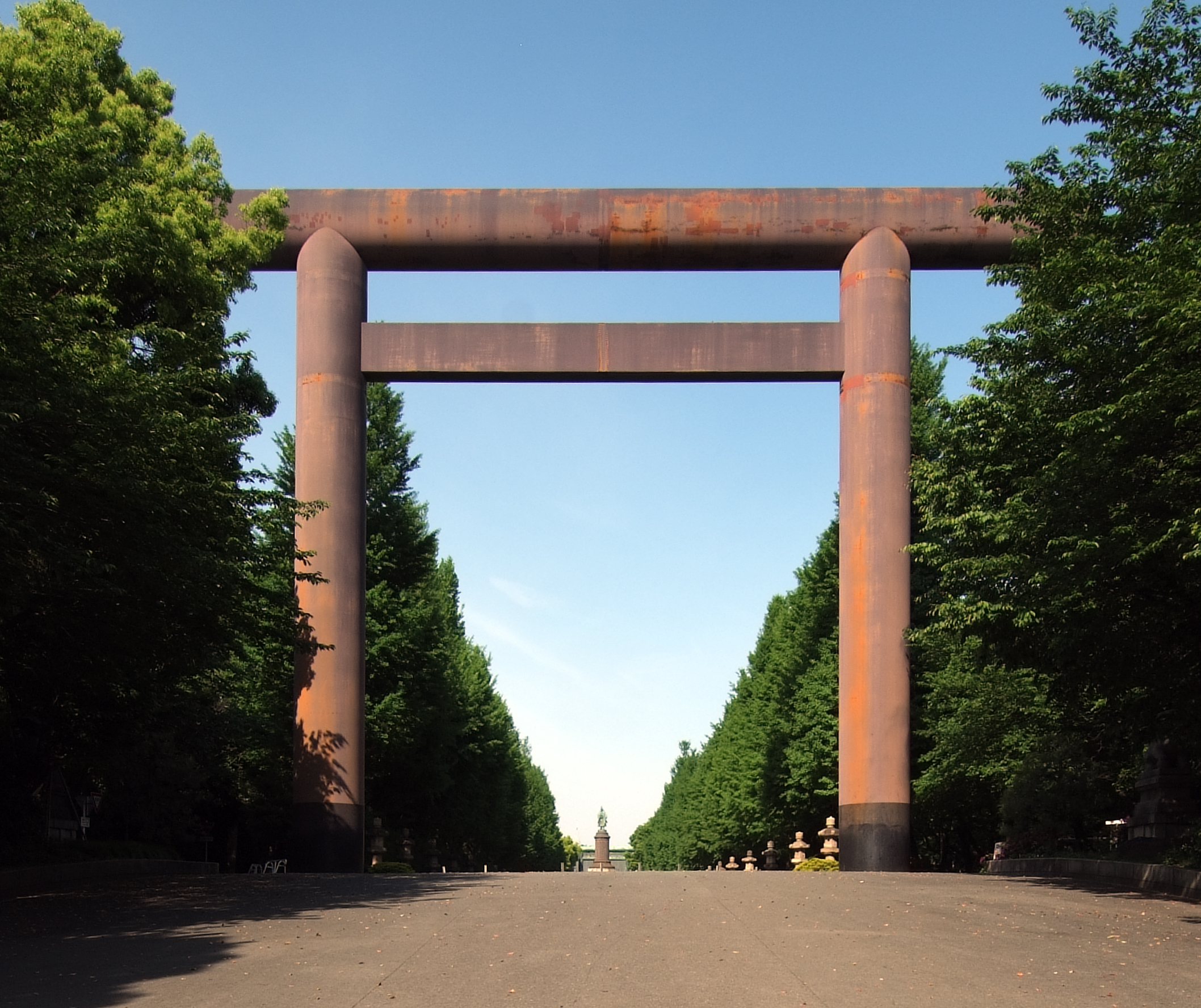 Daiichi Torii of Yasukuni Shrine in Tokyo.